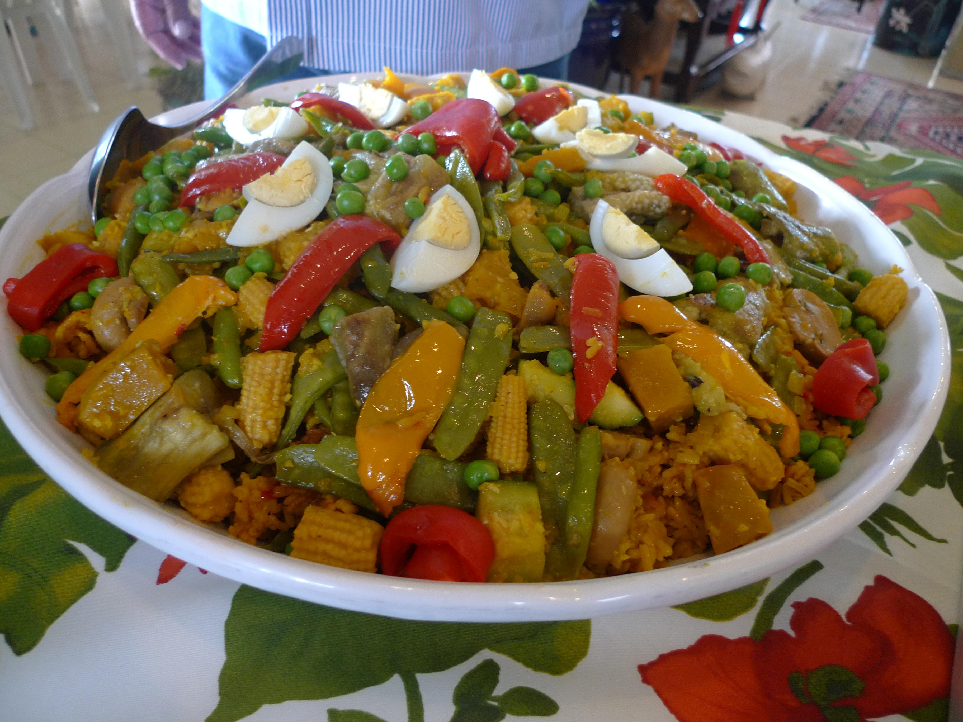 Kalamunda (Tagaytay) Paella